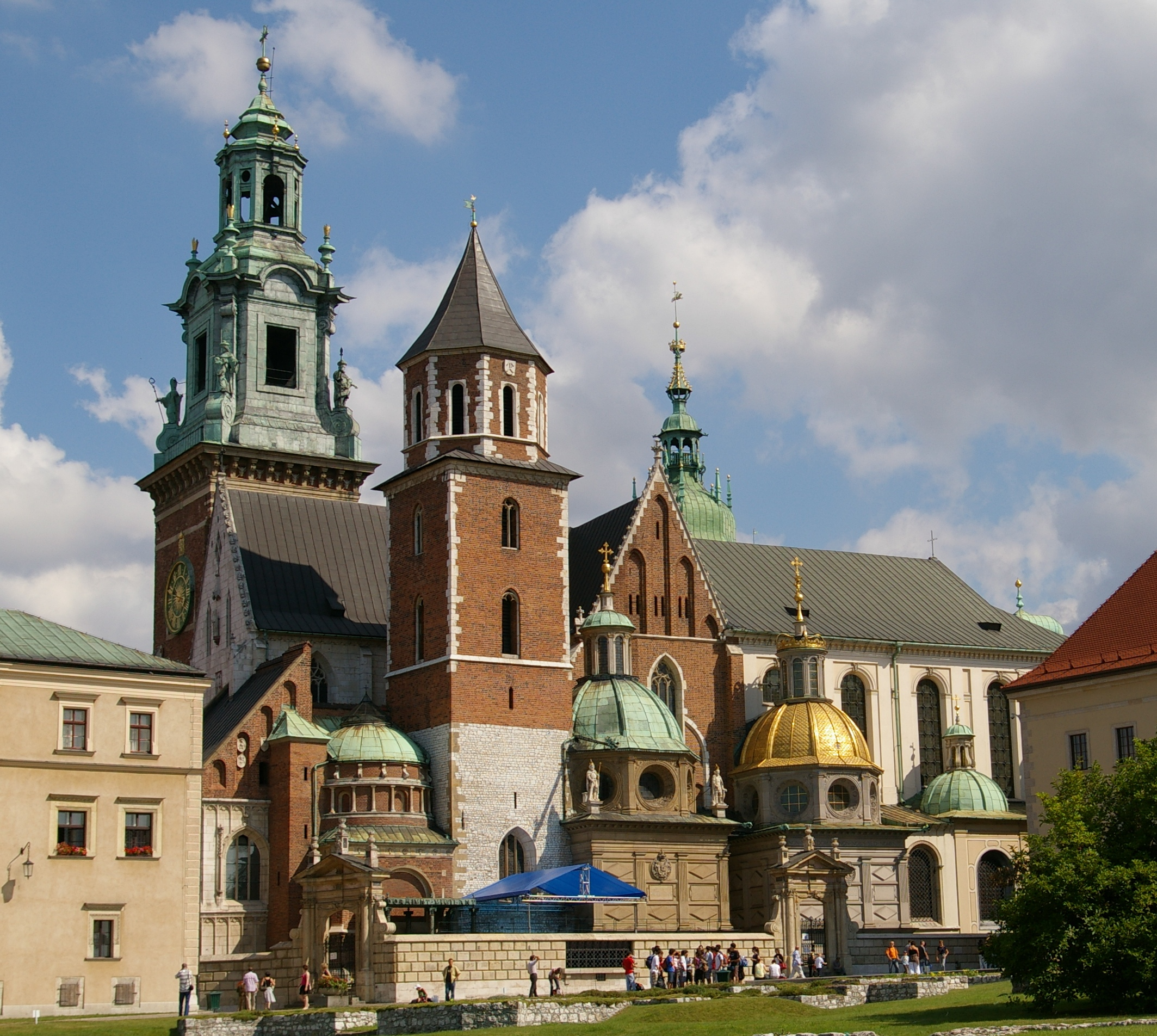 The Wawel Cathedral in Kraków